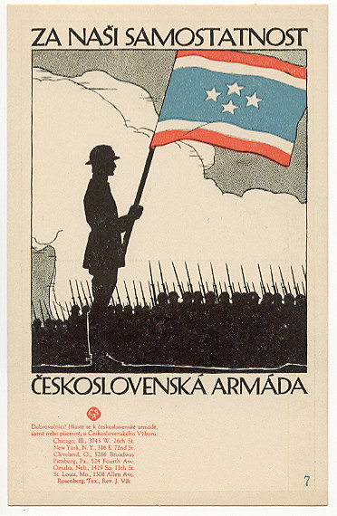 CS Army postcard